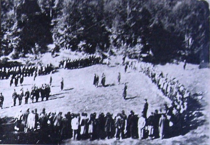 Forming of the battalion "Strasho Pindzur" on September 24, 1943 at Mount Kajmakcalan This media file is produced by Wikipedian in Residence in Category:Wikipedian in Residence at DARM in 2016.